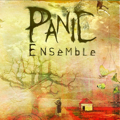 Panic Ensemble - Disc 1 (Panic Ensemble) - front cover